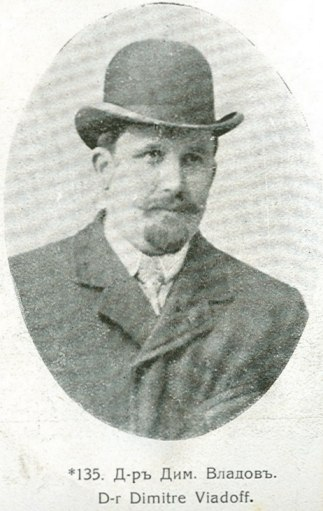 Dimitar Vladov from Resen, IMARO member